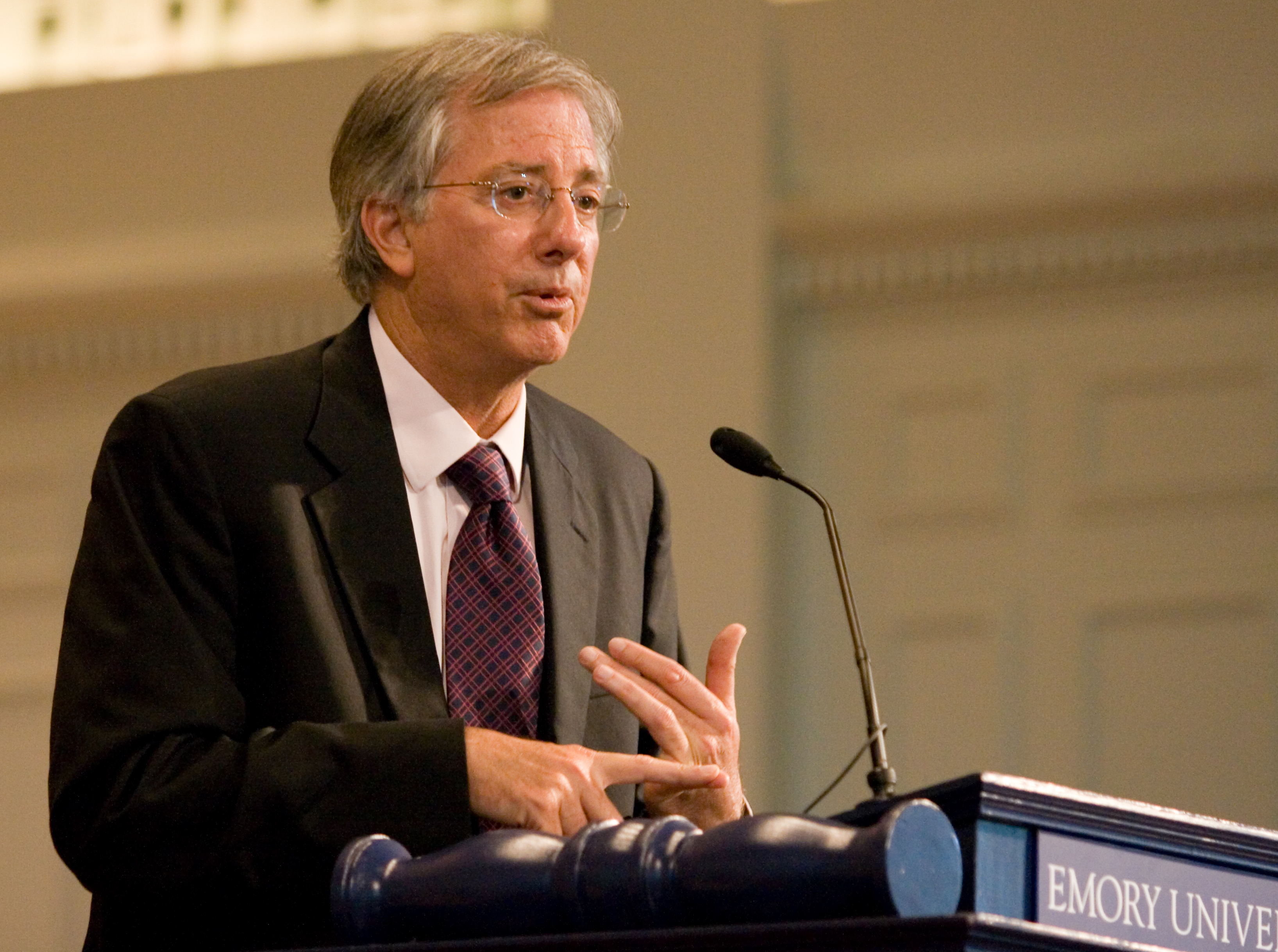 Dennis Ross while speaking at Emory University by Nrbelex.